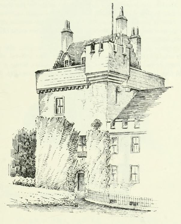 Crossbasket Castle Keep, adjoining Crossbasket House published 1887